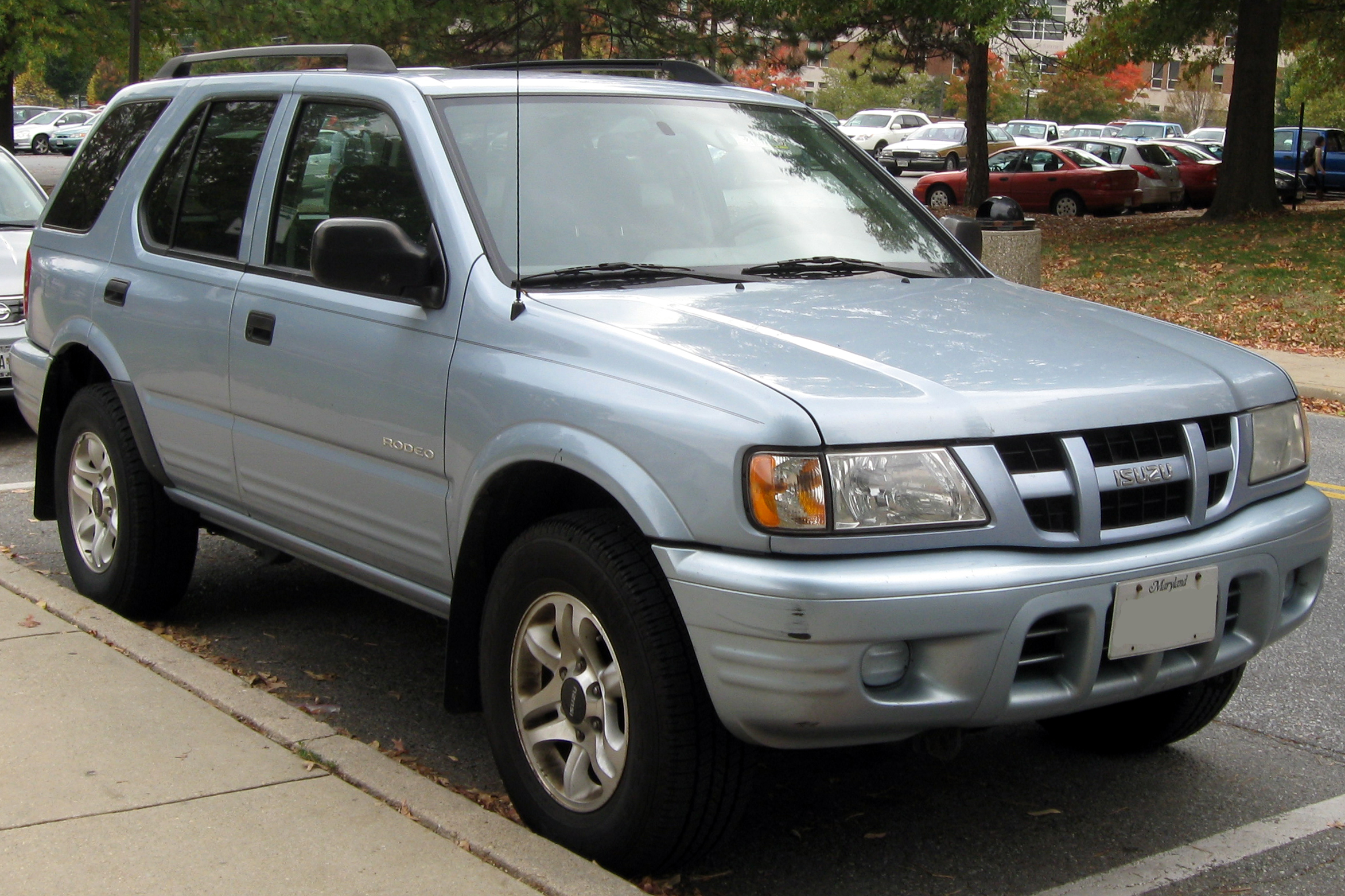 2004 Isuzu Rodeo photographed in College Park, Maryland, USA.